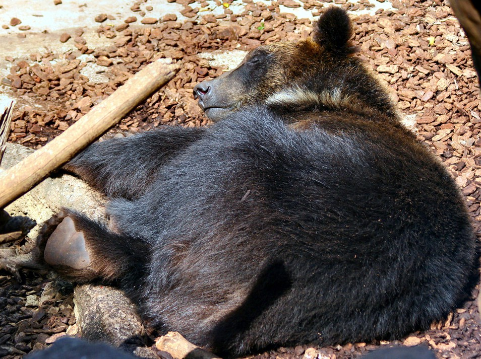 A sleeping Japanese black bear. Ursus thibetanus japonicus.